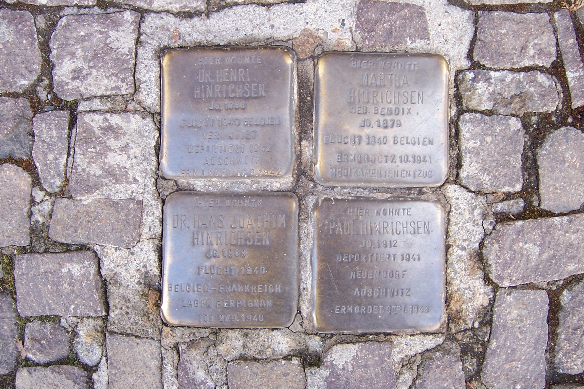 Stolpersteine (memorial cobble stones) in front of the C.F Peters building, Talstrasse 10, in Leipzig